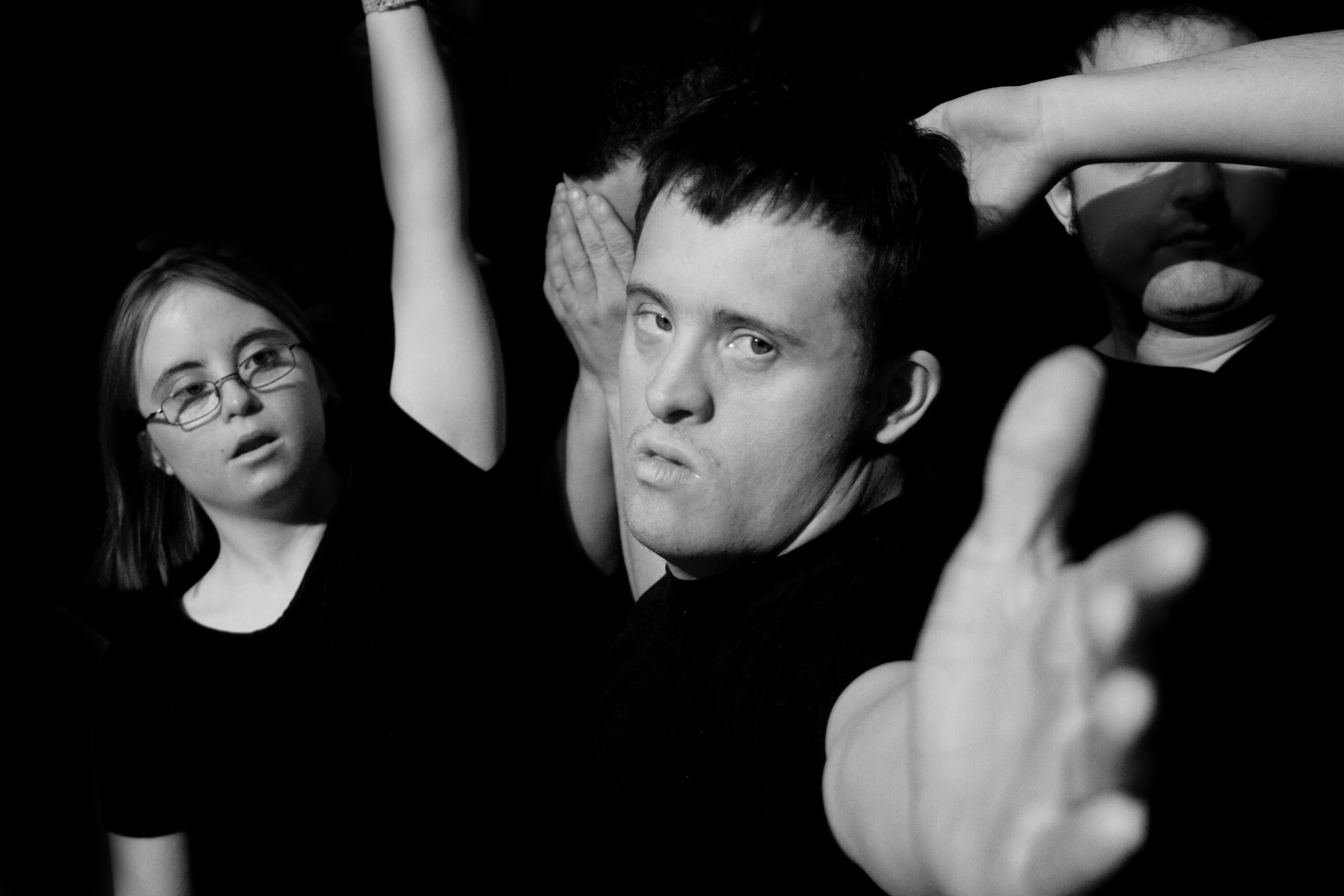 This is a photo of the "Apple Core" actors from Blue Apple Theatre.